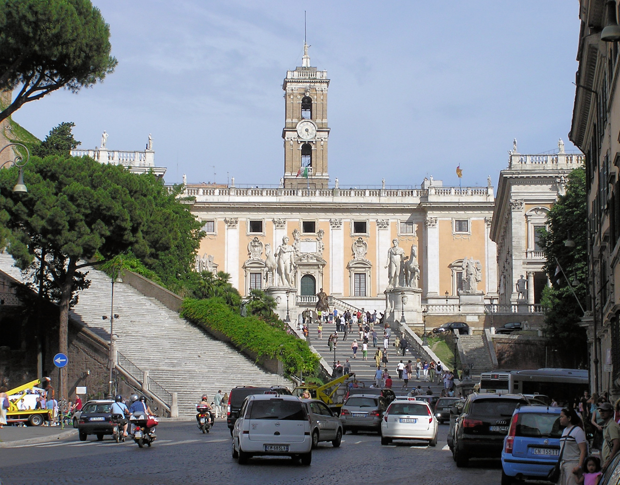 The cordonata (a shallow step-less ramp), designed by Michaelangelo, leading from Via del Teatro Marcello up to Piazza del Campidoglio, Rome, Italy. The two Roman statues at the top of the steps are the mythical twins Castor and Pollux, placed there in 1583. The Piazza was designed in the 1530s by Michaelangelo for Pope Paul III. The building opposite the top of the steps (with the tower) is Palazza Senatorio, Rome's City Hall. The massive flight of 134 steps, on the left, leads up to the church of Santa Maria in Aracoeli.